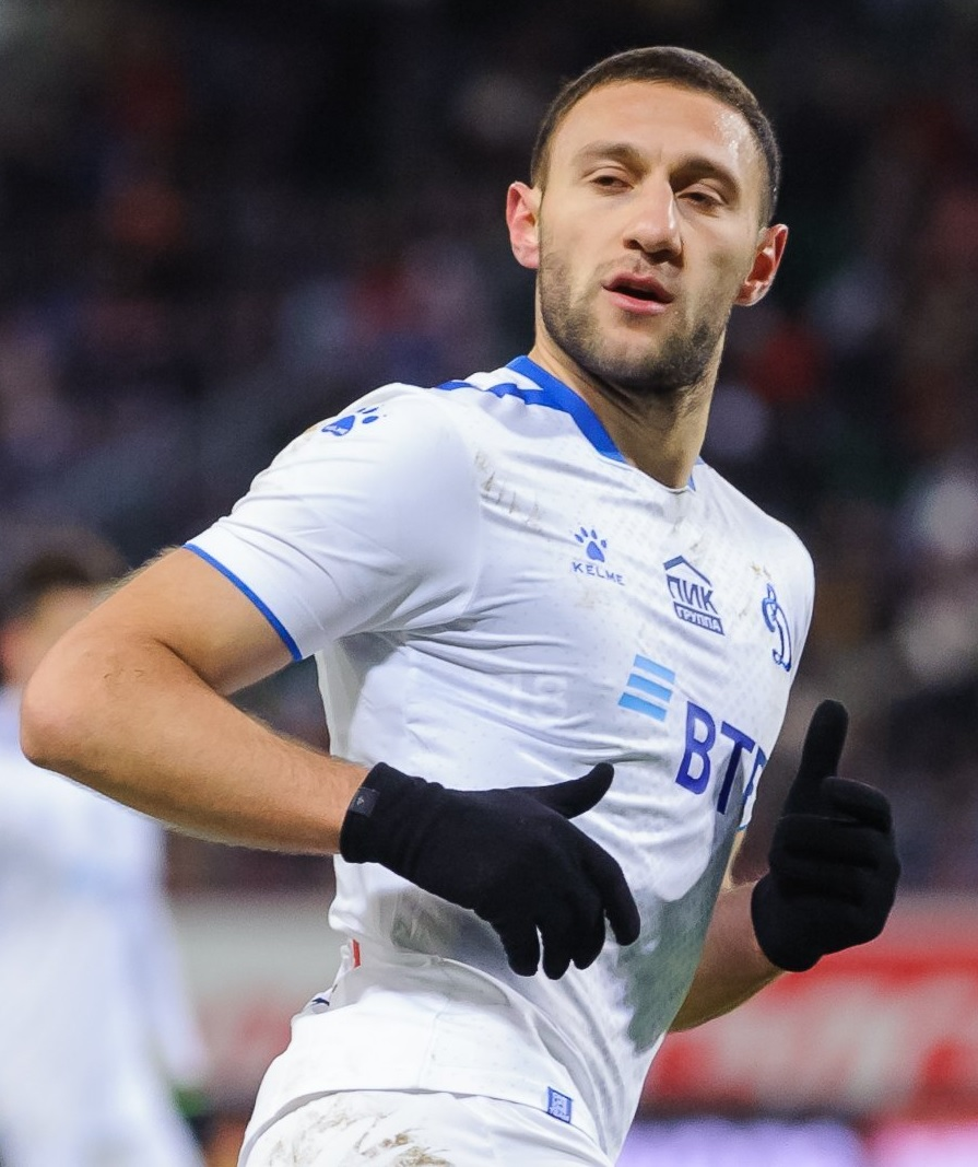 Ivan Ordets playing for FC Dynamo Moscow in a game against FC Lokomotiv Moscow.